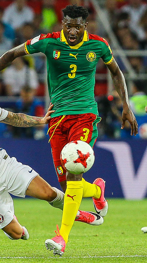 Cameroon vs Chile (0-2). FIFA Confederations Cup 2017